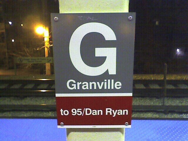 Signage at Granville CTA station, on the Red Line.